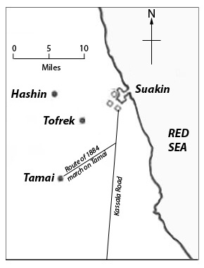 Map showing location of the site of the Battle of Tofrek (1885) in relation to Suakin, Hashin and Tamai.